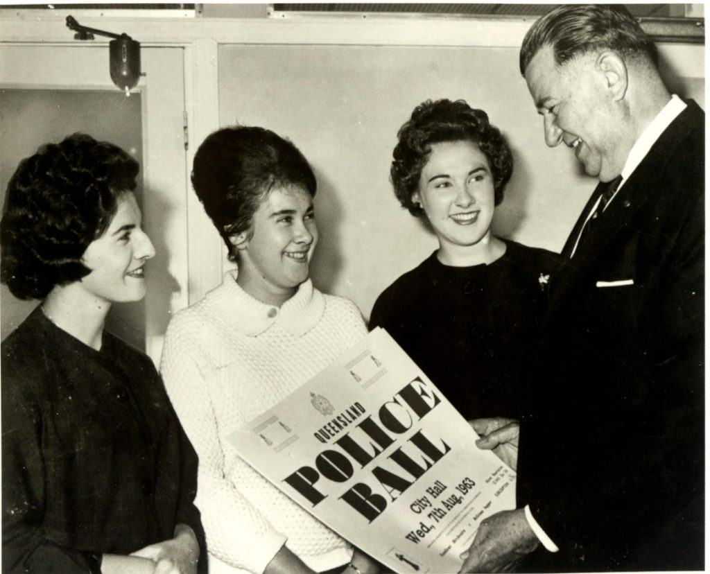 The Queensland Police Ball continues; Commissioner Frank Bischof discusses the upcoming event with three debutantes from the Main Roads Department, all of whom will be presented to Sir Alan Mansfield, Chief Justice of the Supreme Court of Queensland, at Brisbane City Hall on August 7, 1963.